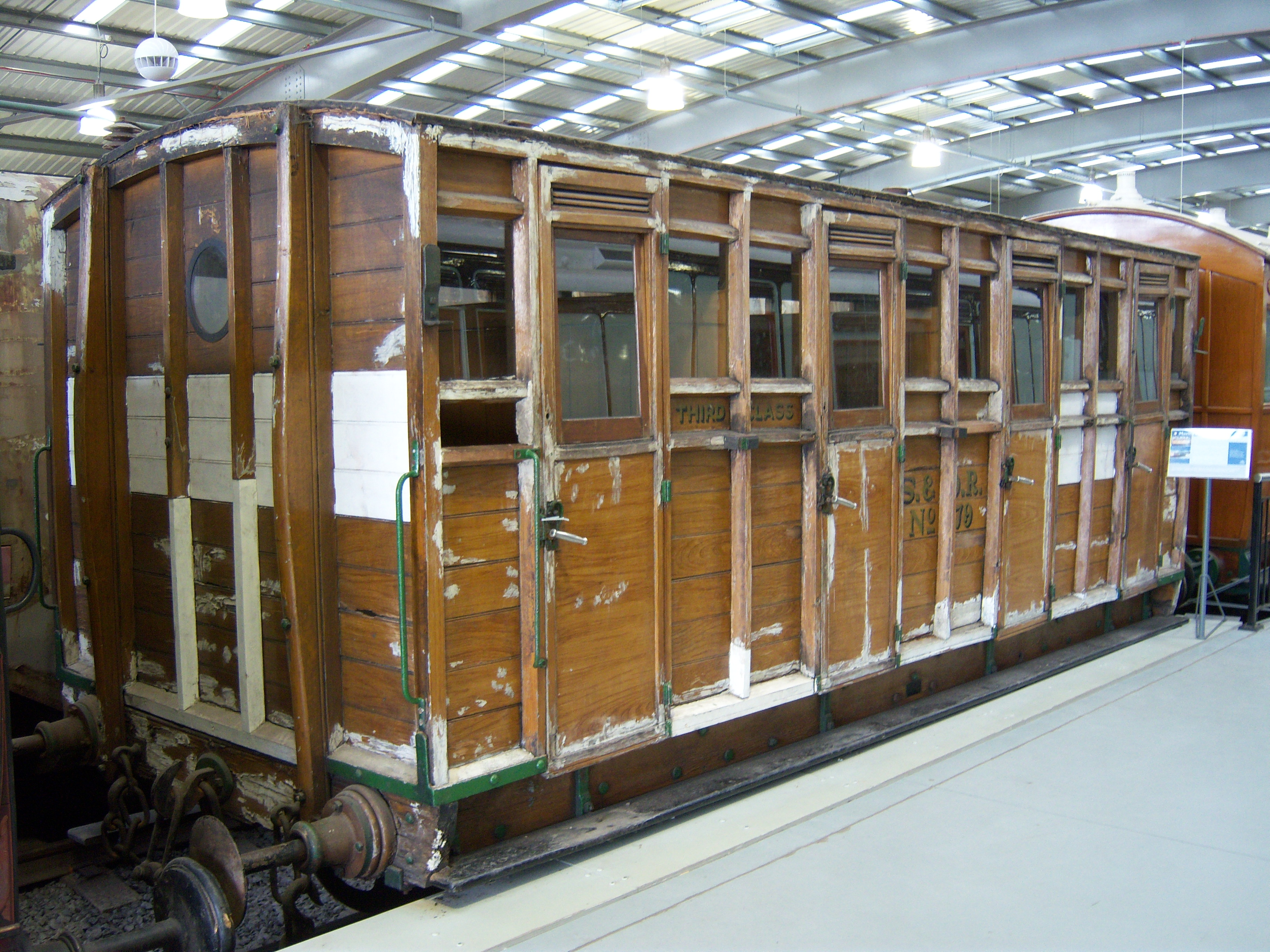 Preserved Stockton & Darlington Railway third class coach No 179, a.k.a. the Forcett Coach due to the location of its rediscovery in Forcett goods yard. Built in 1865, it's pictured here resident in the 2004 built Collection hall of the National Railway Museum's Locomotion outpost in Shildon, County Durham. It moved into the hall from its previous home, the Timothy Hackworth Museum half a mile away, which Locomotion absorbed when it was created. No. 179 has since left, having been sold by the NRM in 2011.